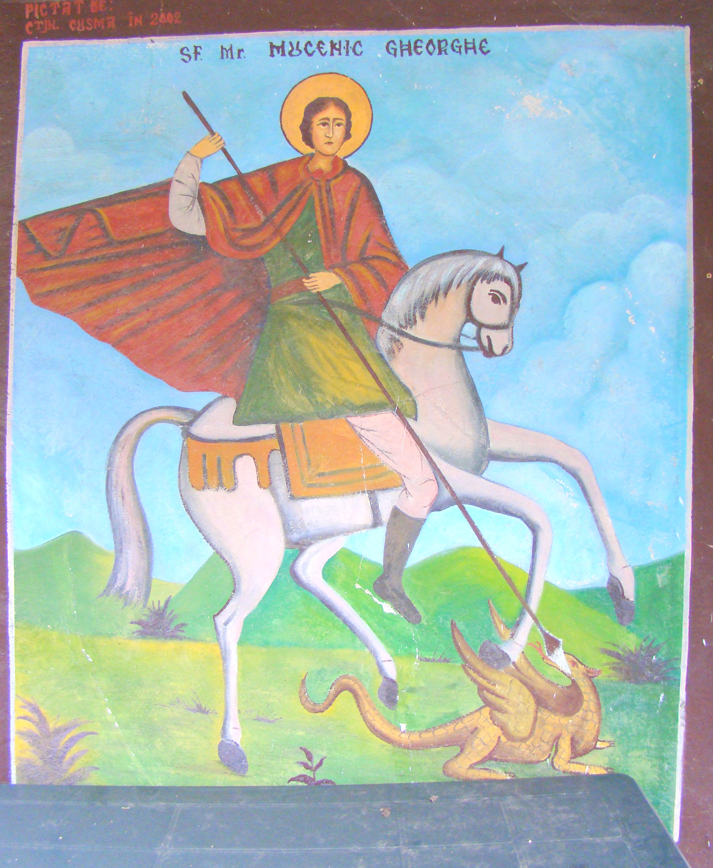 Wooden church in Pistrița, Mehedinți county, Romania